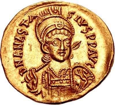 Anastasius I. 491-518. AV Solidus (21mm, 4.47 g, 6h). Constantinople mint, 1st officina. Struck 507-518. Helmeted and cuirassed bust facing slightly right, holding spear over shoulder and shield. DOC 7a; MIBE 7; SB 5.